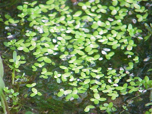 Species: Lemna minor Family: Lemnaceae Image No. 4